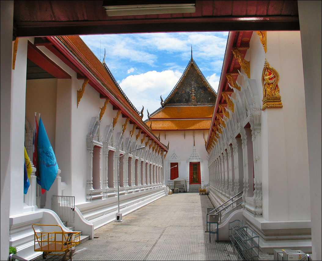 Viharn (left), Ubosot (right), Mondop (background), Wat Mahathat, Bangkok, Thailand.